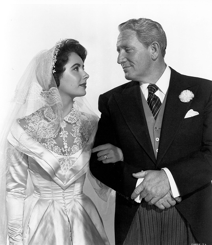 Elizabeth Taylor and Spencer Tracy in a promotional image for the 1950 film Father of the Bride. Such images were taken on set during filming, or as part of an organized photo-shoot, by a studio photographer. They were then disseminated to the media and the public to promote the film (see Film still). Public domain explanation It is unlikely that this image was secured with copyright protection, as stated by film induustry expert Gerald Mast in Film Study and the Copyright Law (1989) p. 87: "According to the old copyright act, such production stills were not automatically copyrighted as part of the film and required separate copyrights as photographic stills ... Most studios have never bothered to copyright these stills because they were happy to see them pass into the public domain, to be used by as many people in as many publications as possible." If there is any chance that the photograph was copyrighted, under the terms of the 1909 Copyright Act (which was law until 1978) it would have had to be renewed 28 years after publication. The movie had its copyright renewed in 1977, but searching for artwork renewals in this year find no trace of this image. If it was renewed in 1978 it would be documented on the US Copyright Office website. Again, there is no evidence that any images related to the film had their copyright renewed.